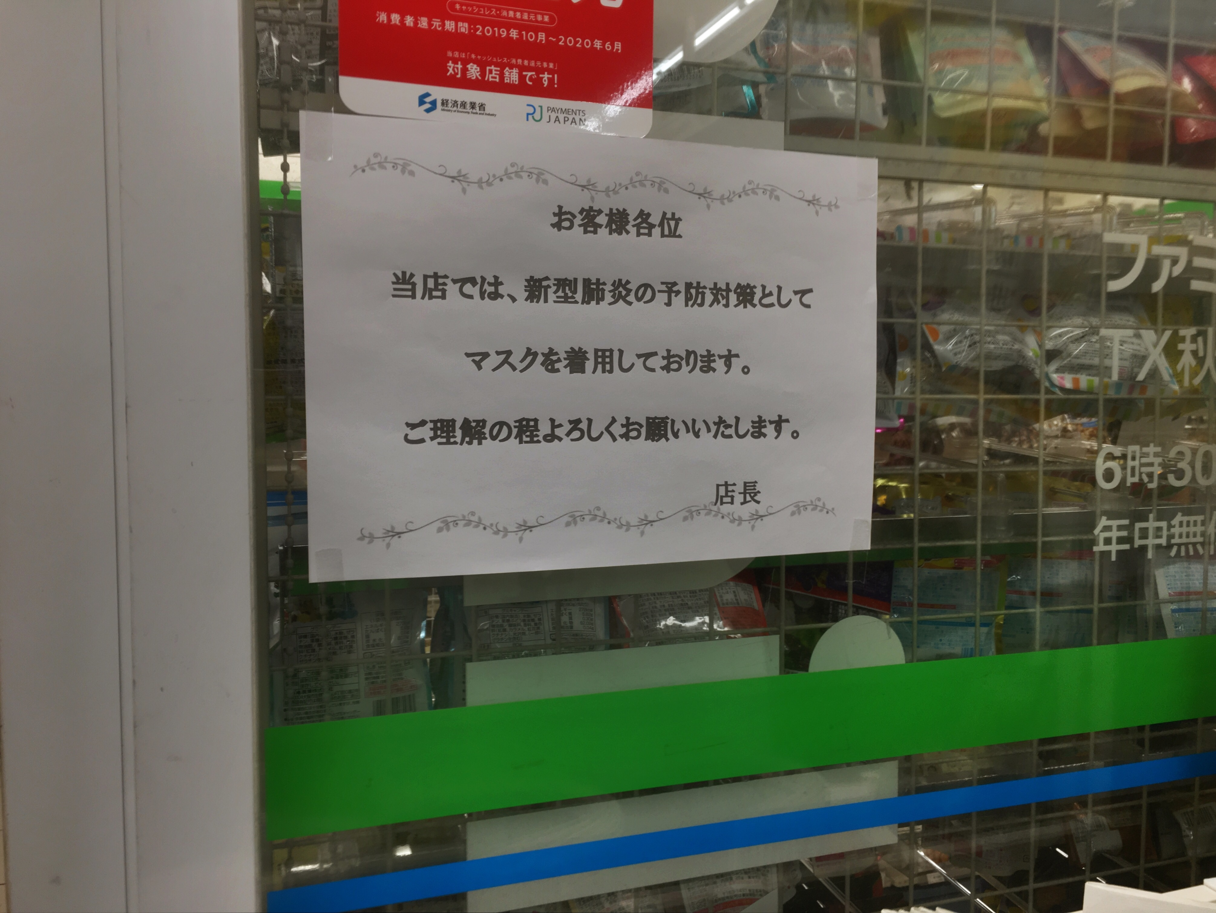 Mask wearing because of coronavirus sign